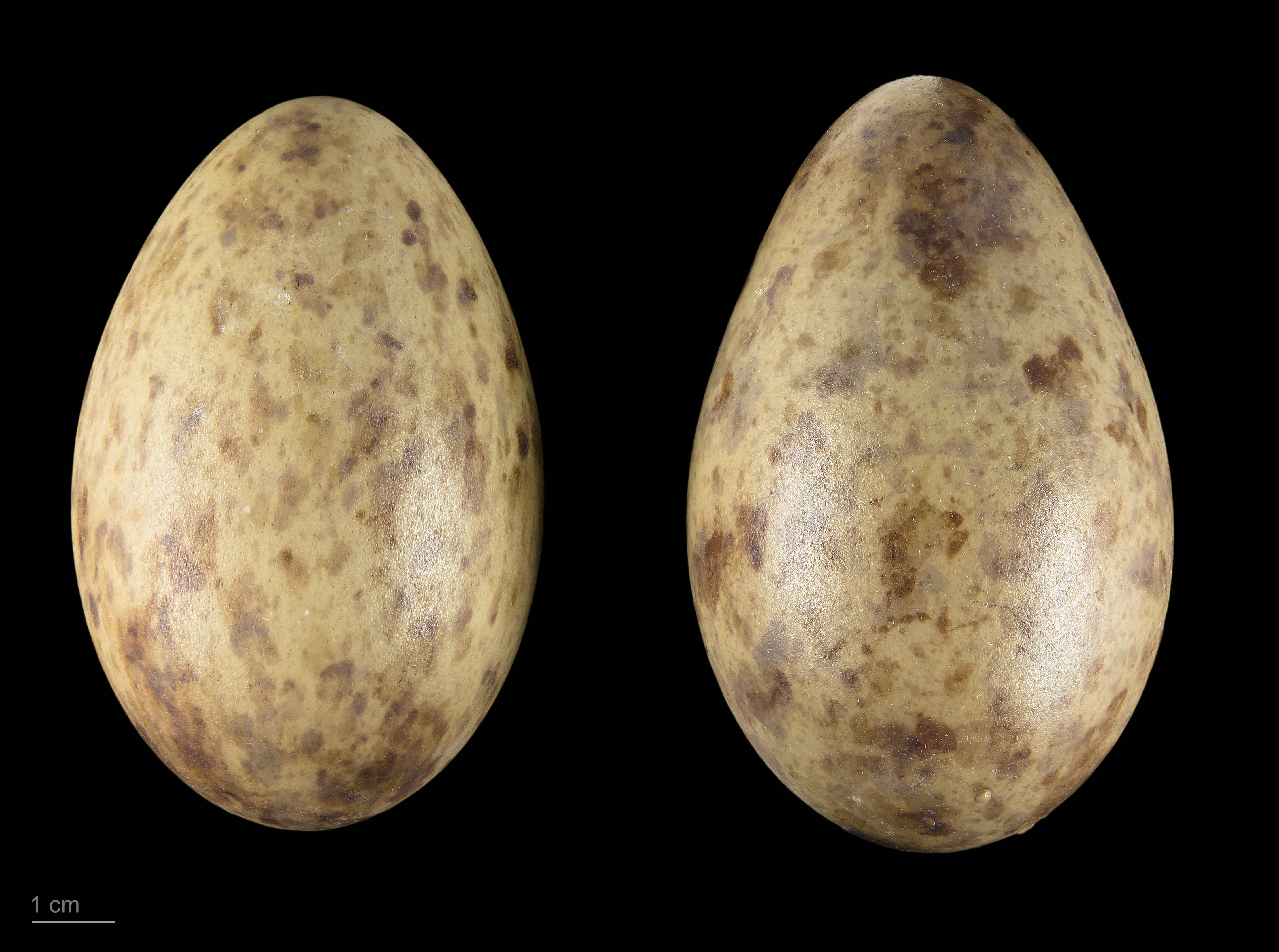 Eggs of demoiselle crane Two specimens of the same spawn ; collection of Jacques Perrin de Brichambaut.